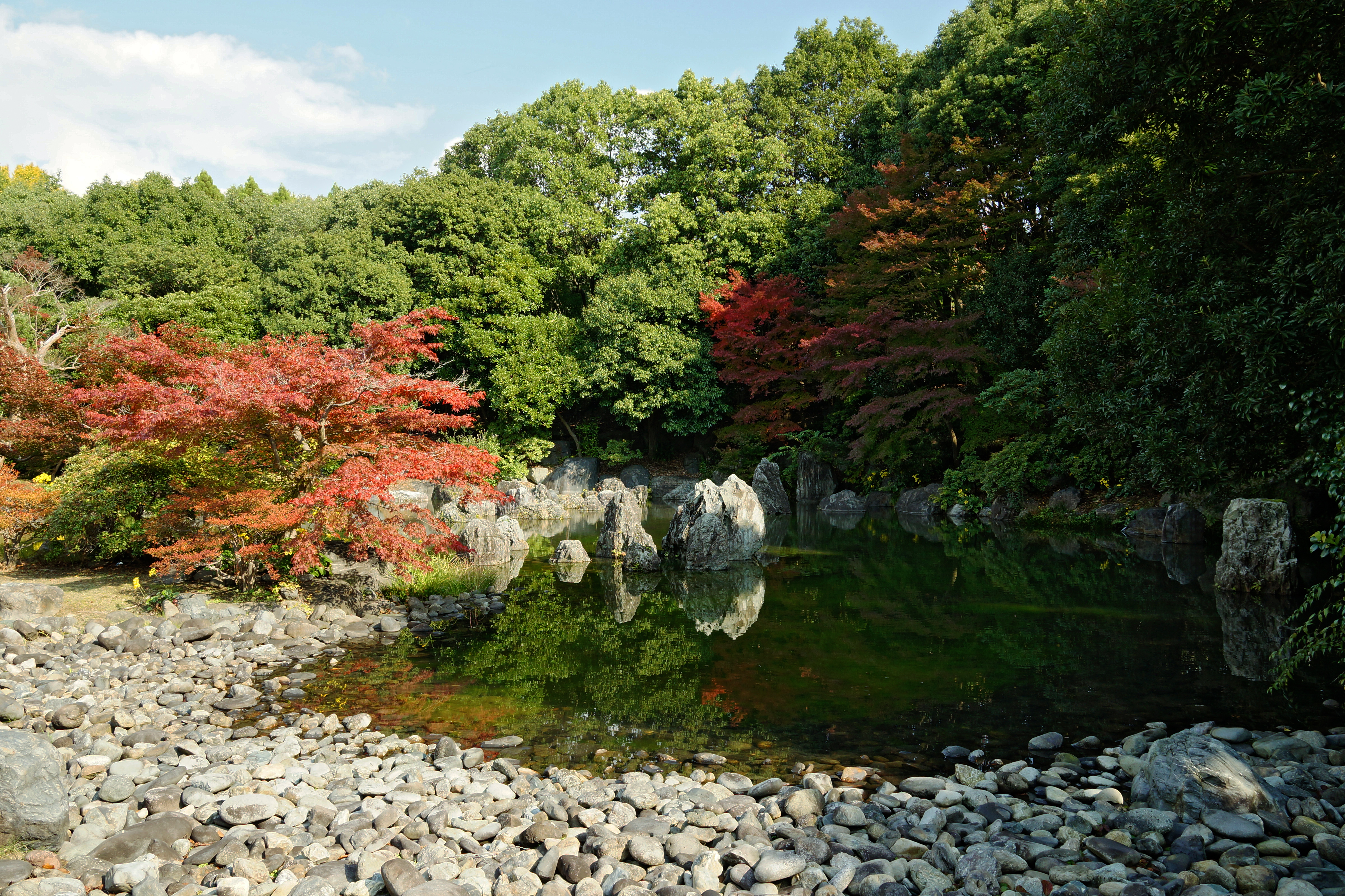 At Expo '70 Commemorative Park in Suita, Osaka prefecture, Japan.